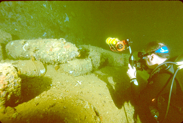 Diver photographing artillery shells in hold of the Yamagiri Maru wreck, Truk Lagoon, Micronesia. Image taken by Clark Anderson/Aquaimages.